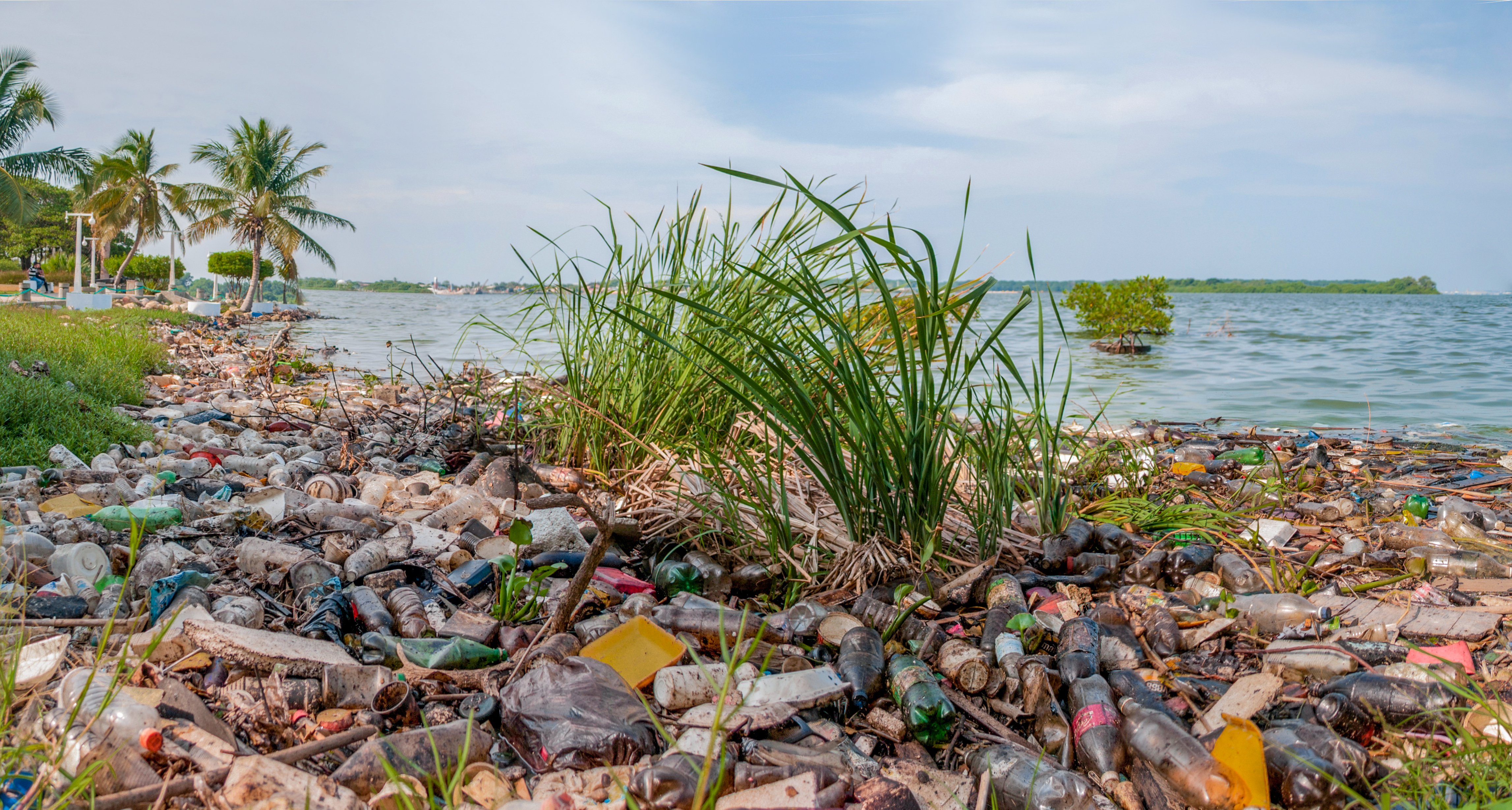 Maracaibo Lake situated in Estado Zulia Venezuela is the biggest lake of South America with an area of 13820 km2[1], it is frequently to look this kind of pollution along of its coasts. It has lemna, oil spill, human waste as main pollutant. The uncontrolled agricultural activities, mining and industrial done in Maracaibo Lake Basin had started a rapid process of eutrophication on this place[2].